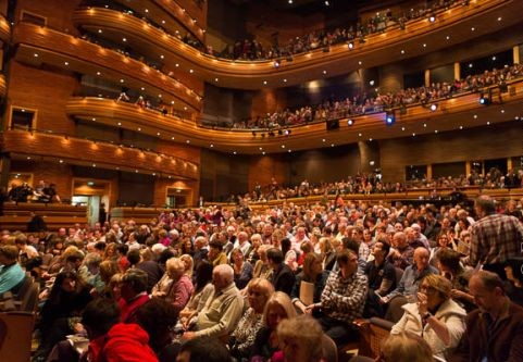 Inside the Donald Gordon Theatre, Wales Millennium Centre, Cardiff, Wales